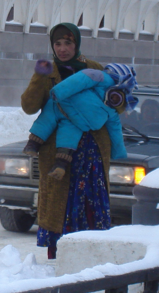 It is a detail of Image:Lyuli woman with child in Kazan, Russia.JPG, made to be included in articles.